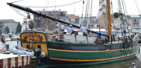 Replica of 19th C. boat. Cruises out of South Haven, MI